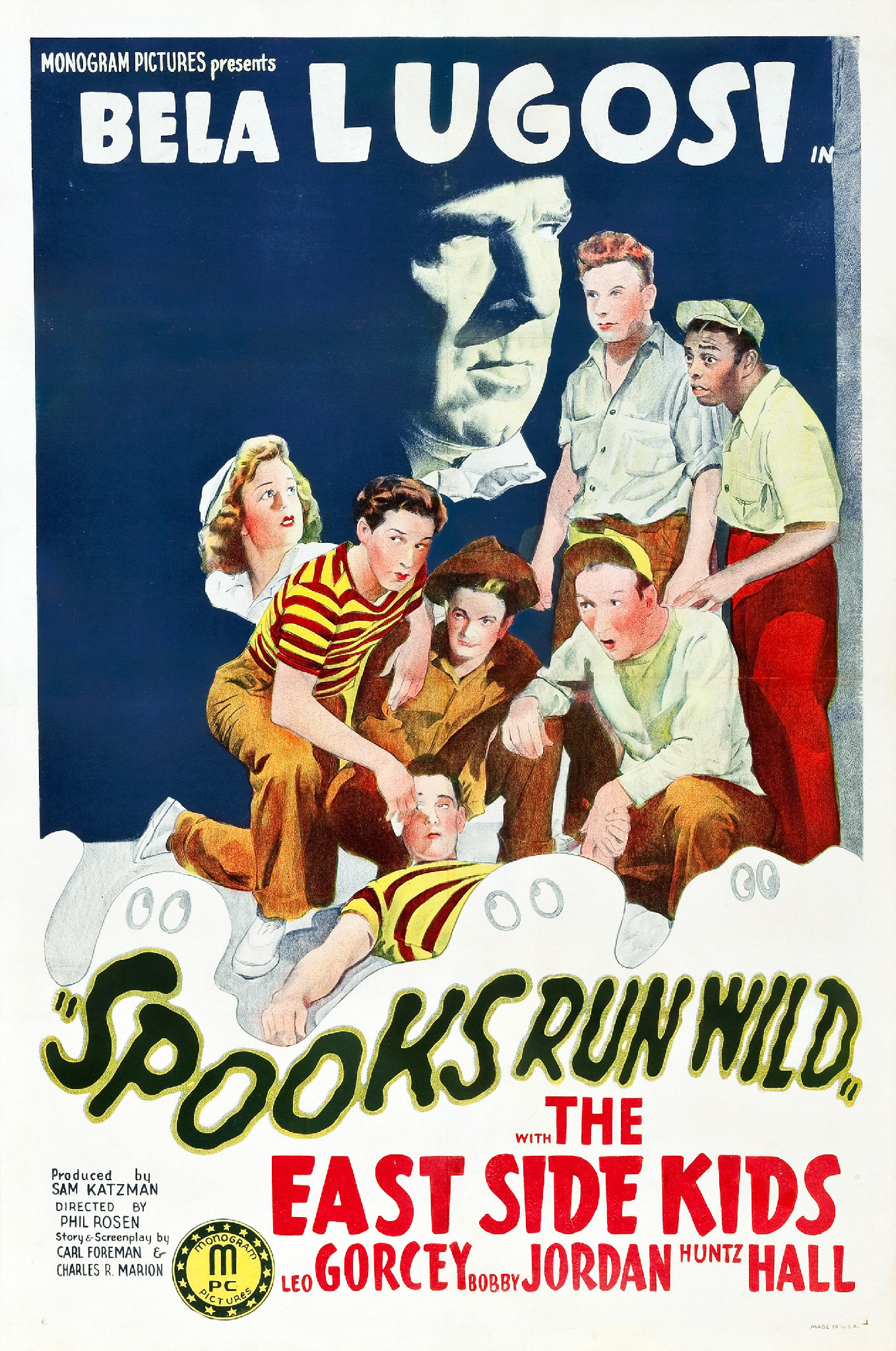 Poster for the 1941 film Spooks Run Wild. The item has no copyright markings on it as can be seen in the links above. At bottom right is Made in USA.